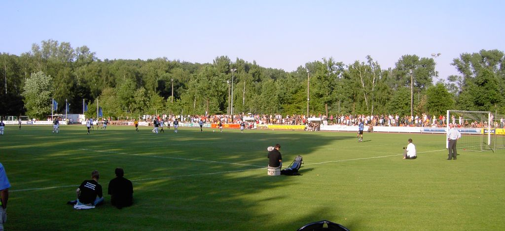 Stadium "Sander Tannen" - homeground of ASV Bergedorf 85 in Hamburg, Germany. View from the west to east. Photo taken by Mghamburg during the local cup match ASV Bergedorf 85 vs. FC St. Pauli, 21st July 2006 (Attendance: 1.773).